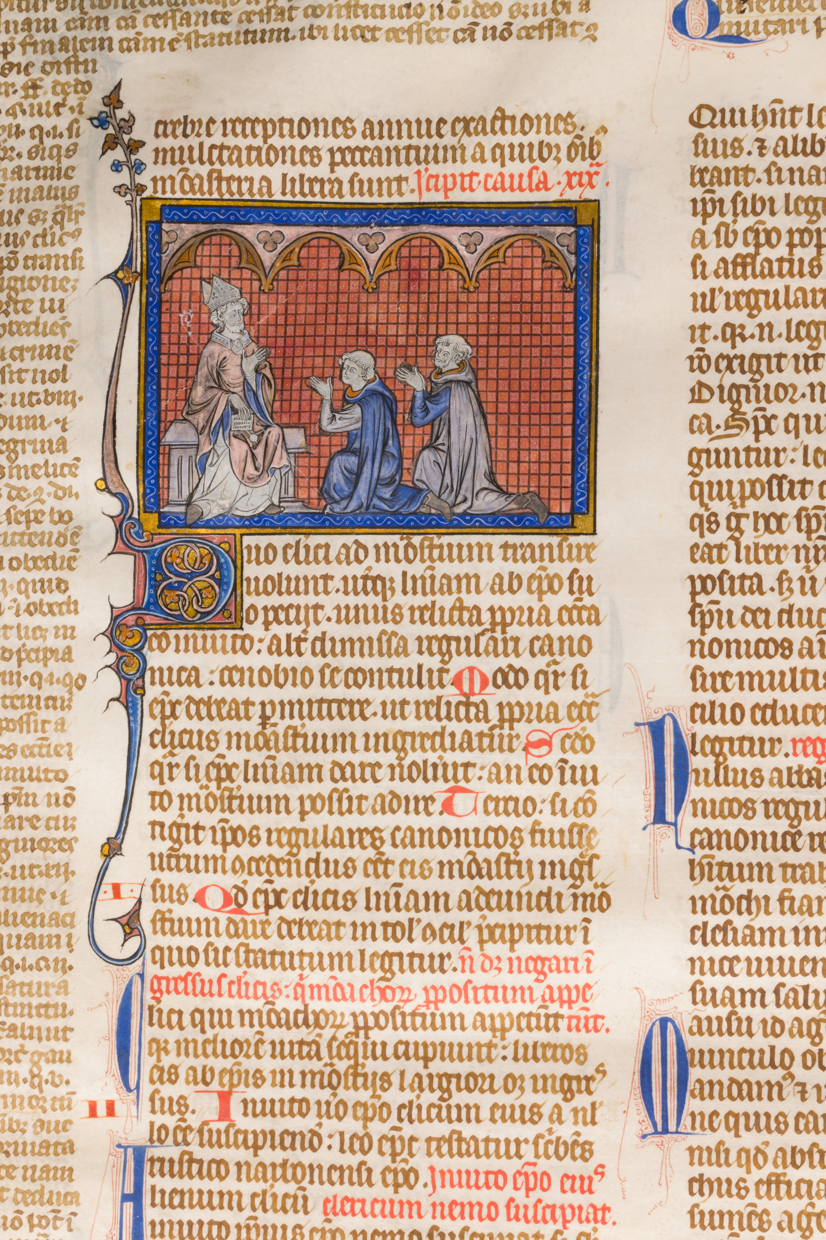 French; Bifolium; Manuscripts and Illuminations